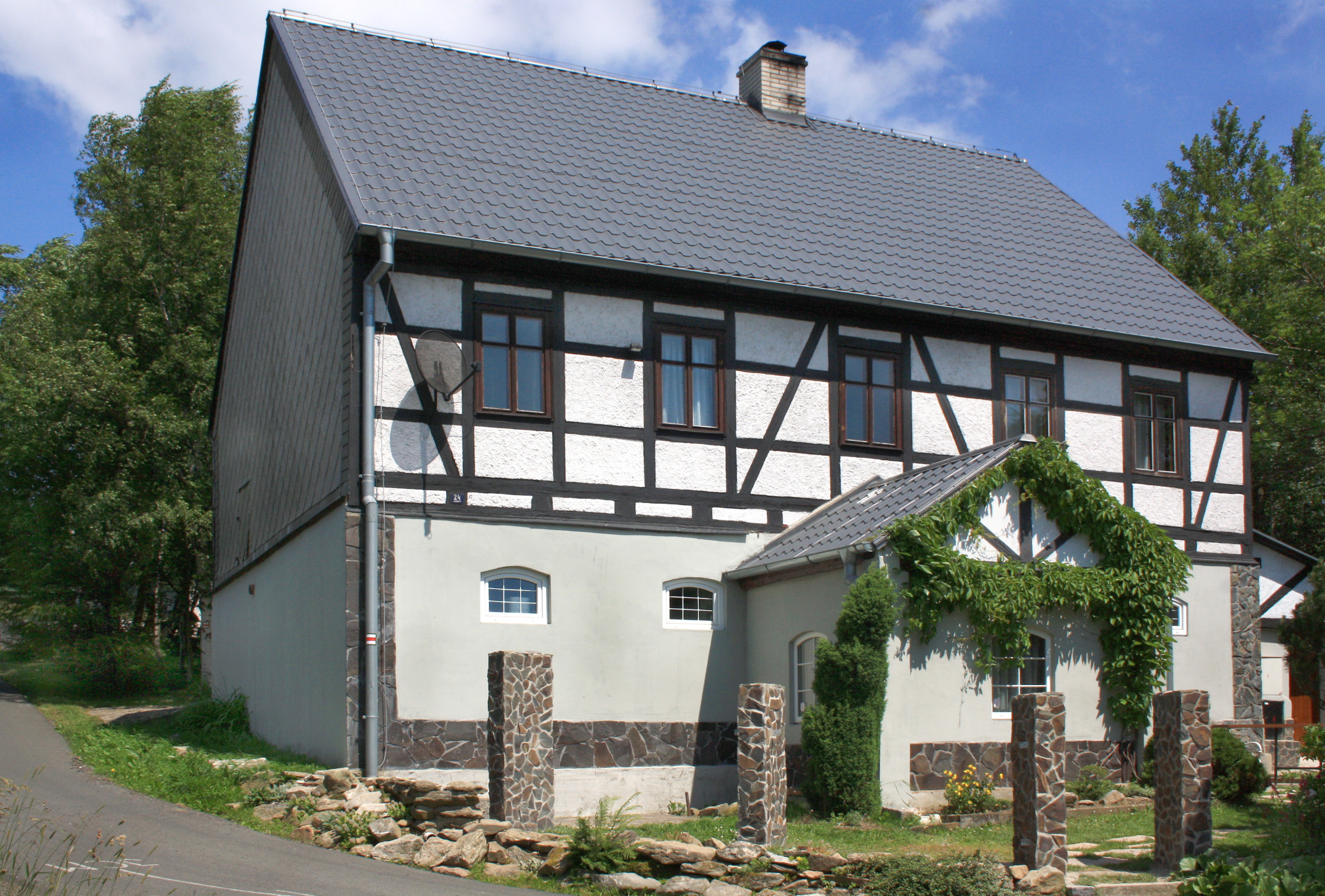 Middle part of Zákoutí village, part of Blatno, Czech Republic